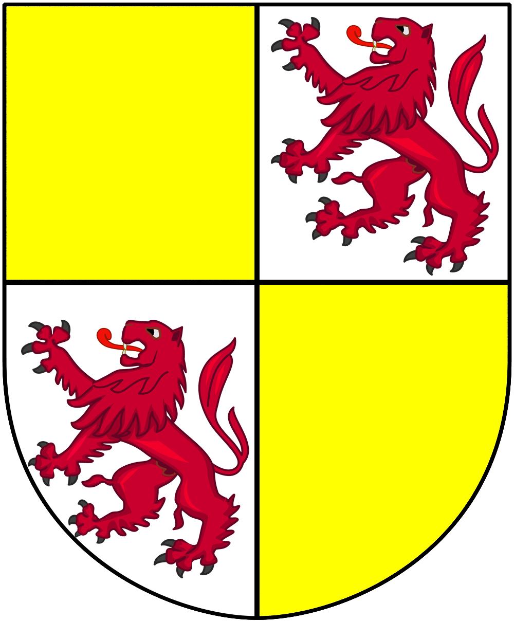 Coat of Arms of the Portuguese family Teles da Silva, Marquesses of Alegrete